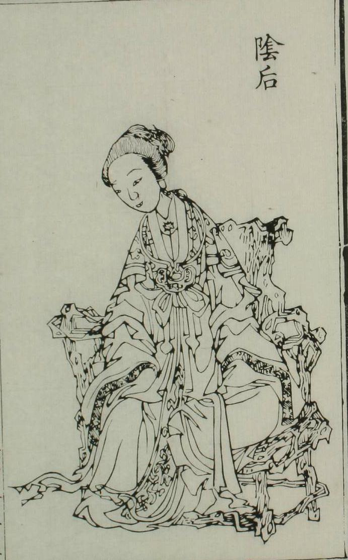 This is a image about the Empress Yin Lihua.